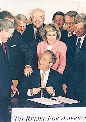 President George W. Bush signing the Economic Growth and Tax Relief Reconciliation Act of 2001 in the White House East Room in June 7, 2001